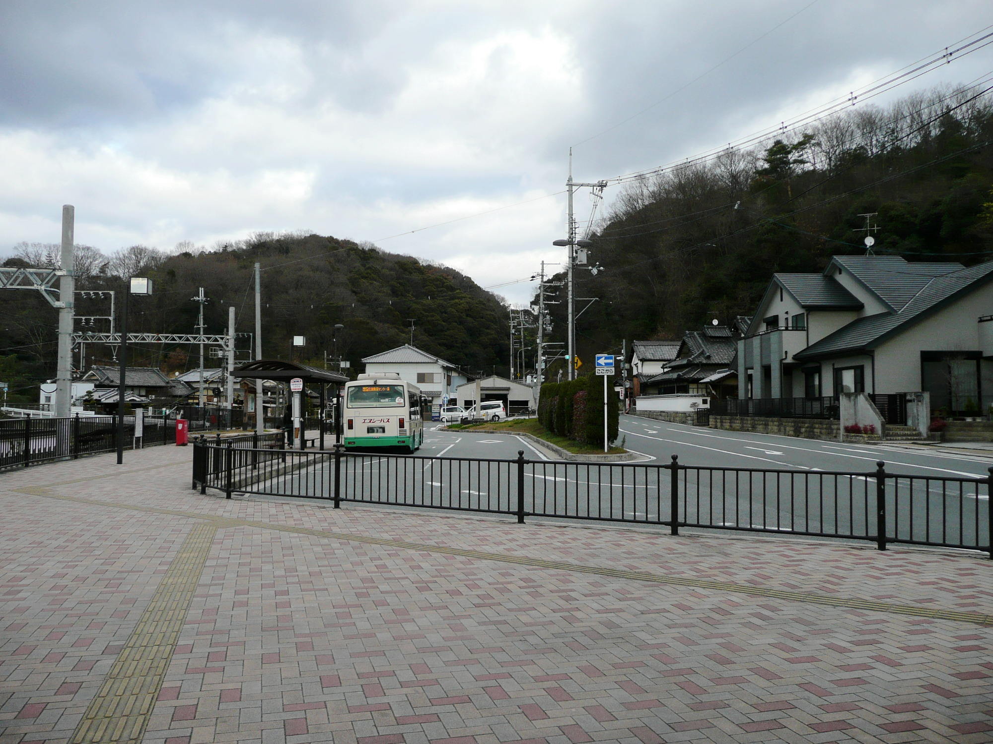 Kinki Nippon Railway,Ikoma Line,Motosanjoguchi Station plaza.